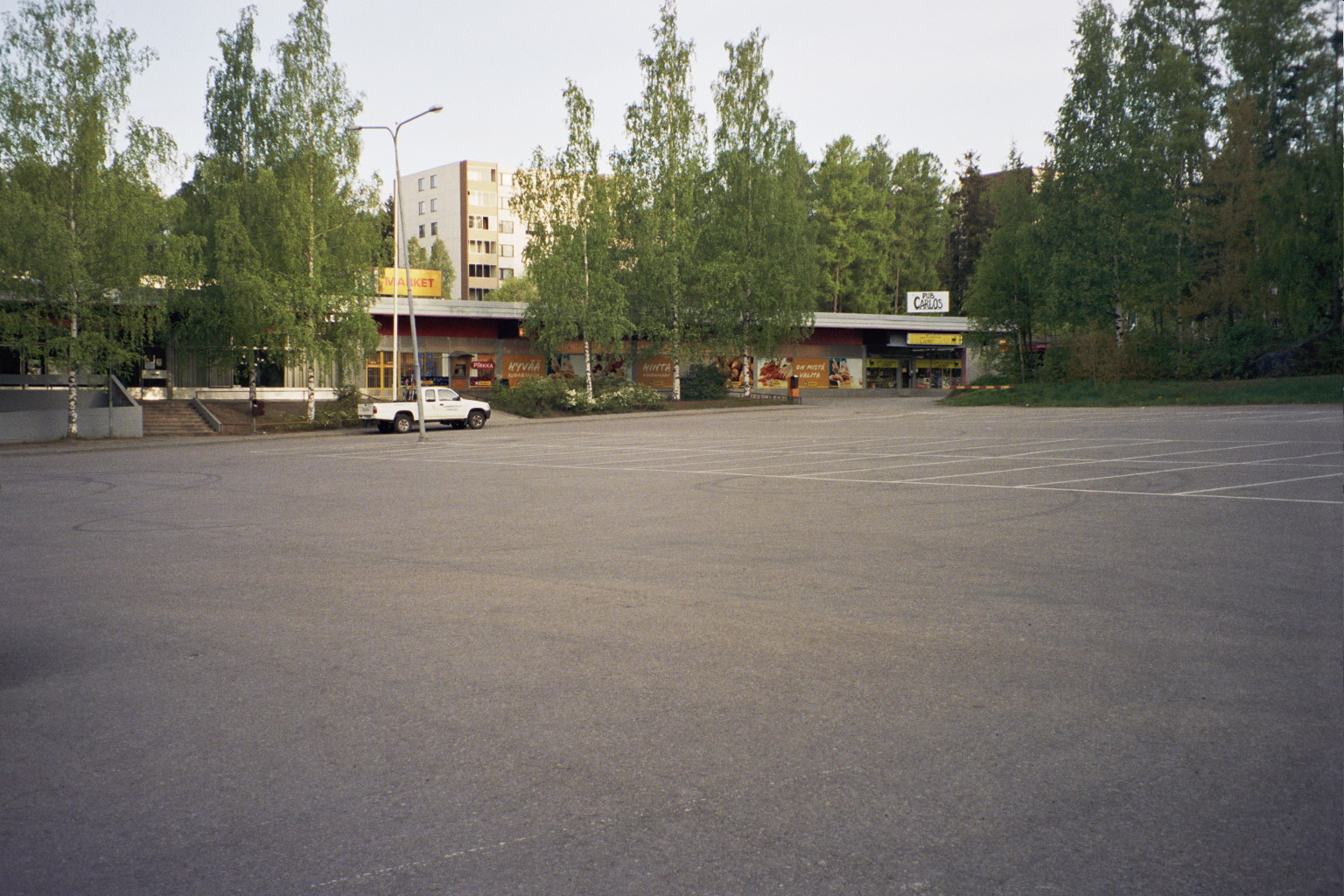 A small shopping mall in Lentävänniemi, Tampere, Finland.